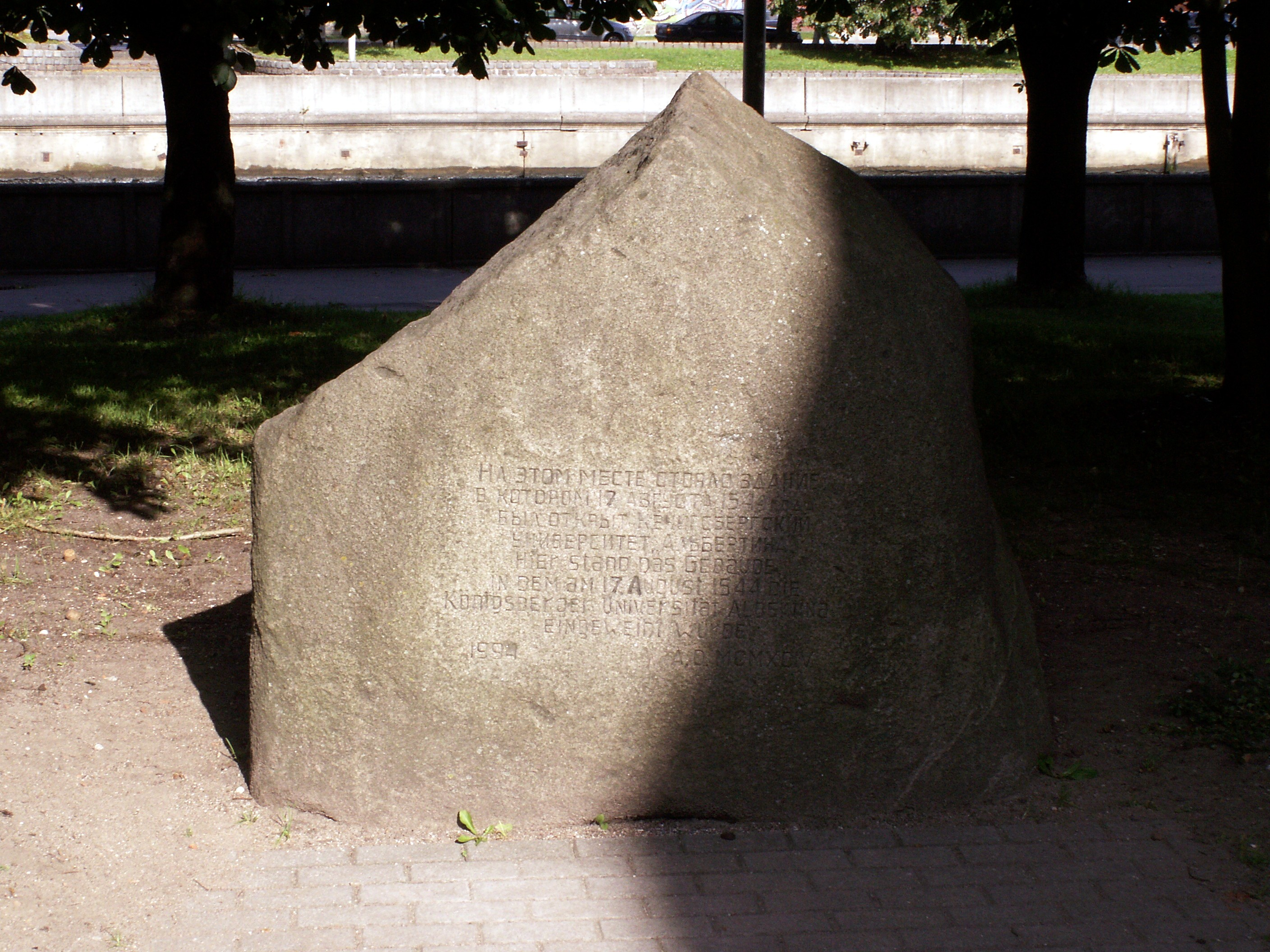 Old Albertina place